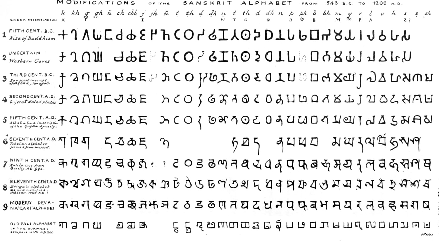 Consonants of the Brahmi script according to James Prinsep March 1838. All the letters are correctly deciphered, except for two missing on the right. This chart was also published in “Essays on Indian Antiquities, Vol II, on page 40 -41, on next pages 41-42, Following text is written about credibility of the tables mentioned by James Princep On page 41, it is written “ ..In this case, his( james) unvarying frankness and candour have of themselves paved the way for my justification, and I doubt not that, had his intellect been spared to us,he would himself have been prompt to reduce to more consistent and mature theory, the imperfect hypothesis somewhat hastily enunciated on the initiatory publication of these fac-similes.”. It clearly says, it is imperfect hypothesis somewhat hastily produced. In same book, On page 42, it is written - “As respects the derivation of the literal series, Princep had clearly a leaning towards associating with the Greek, grounded upon the similarity,and almost identity of some of the forms of each,the phonetic value of which fell into appropriate accord.That these similitude's exist there can be no doubt,but not in sufficient numbers or degree to authorize an inference that one system borrowed directly from other. So from above quotes, it is clear that James Princep's tables are nothing but Imperfect Hypothesis. Book which published those tables in 1858,says so. 𑀰(ś) and 𑀱(ṣ).